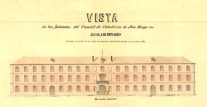 Map of the main facade of the Cavalry Barracks of San Diego in Alcalá de Henares (Madrid - Spain). Now called the Prince headquarters.